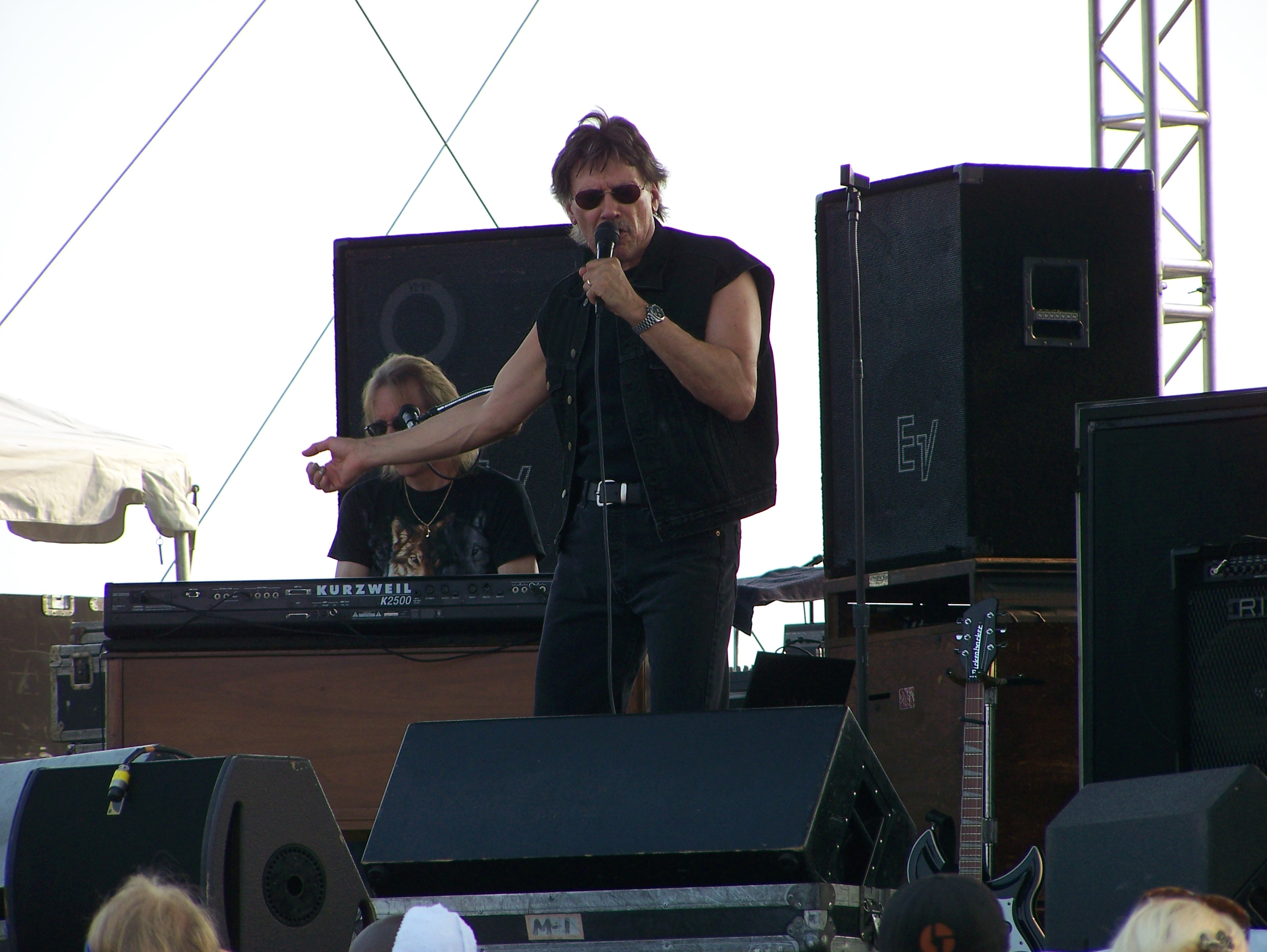 John Kay at the Chesapeake Bay Blues Festival on August 4, 2007. This photo was taken by David Podgor.